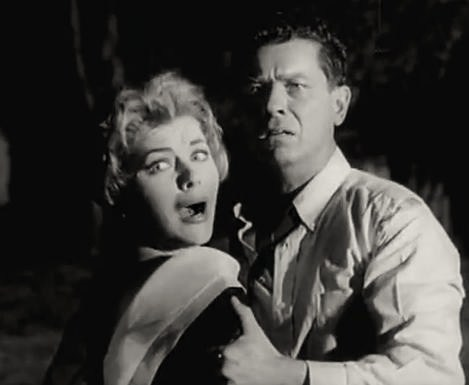 Joanna Moore and Arthur Franz in Monster on the Campus (1958) - trailer (cropped screenshot)